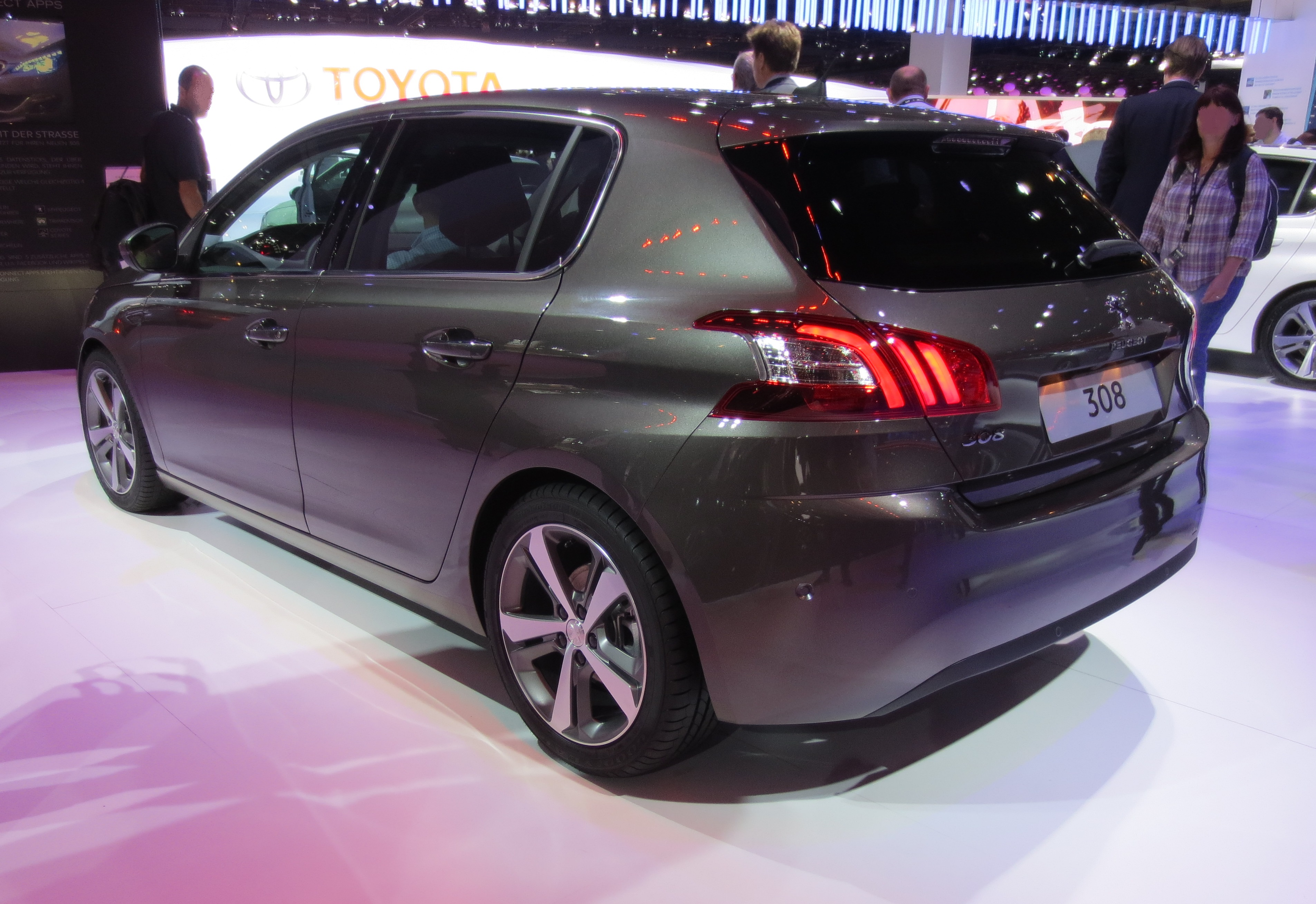 Subject: Peugeot 308 Mk2 Author: Luc106 Date:September 17th, 2013 Event: IAA 2013 Place/Country: Frankfurt Messe, Frankfurt am Main (Germany) I release all rights in the public domain.